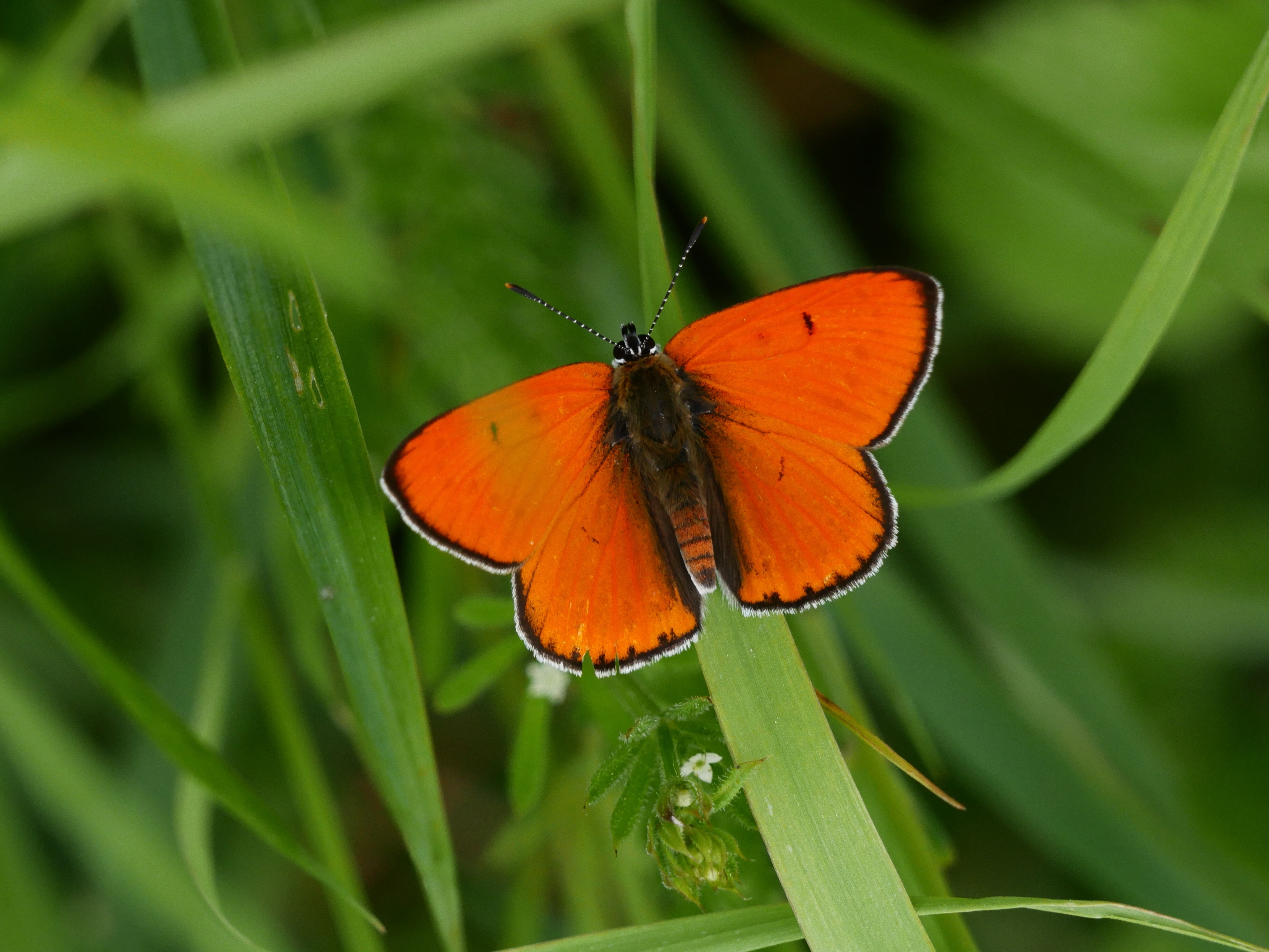 Terasy, natural monument in Uherské Hradiště District, Czech Republic. Project: Chráněná území.